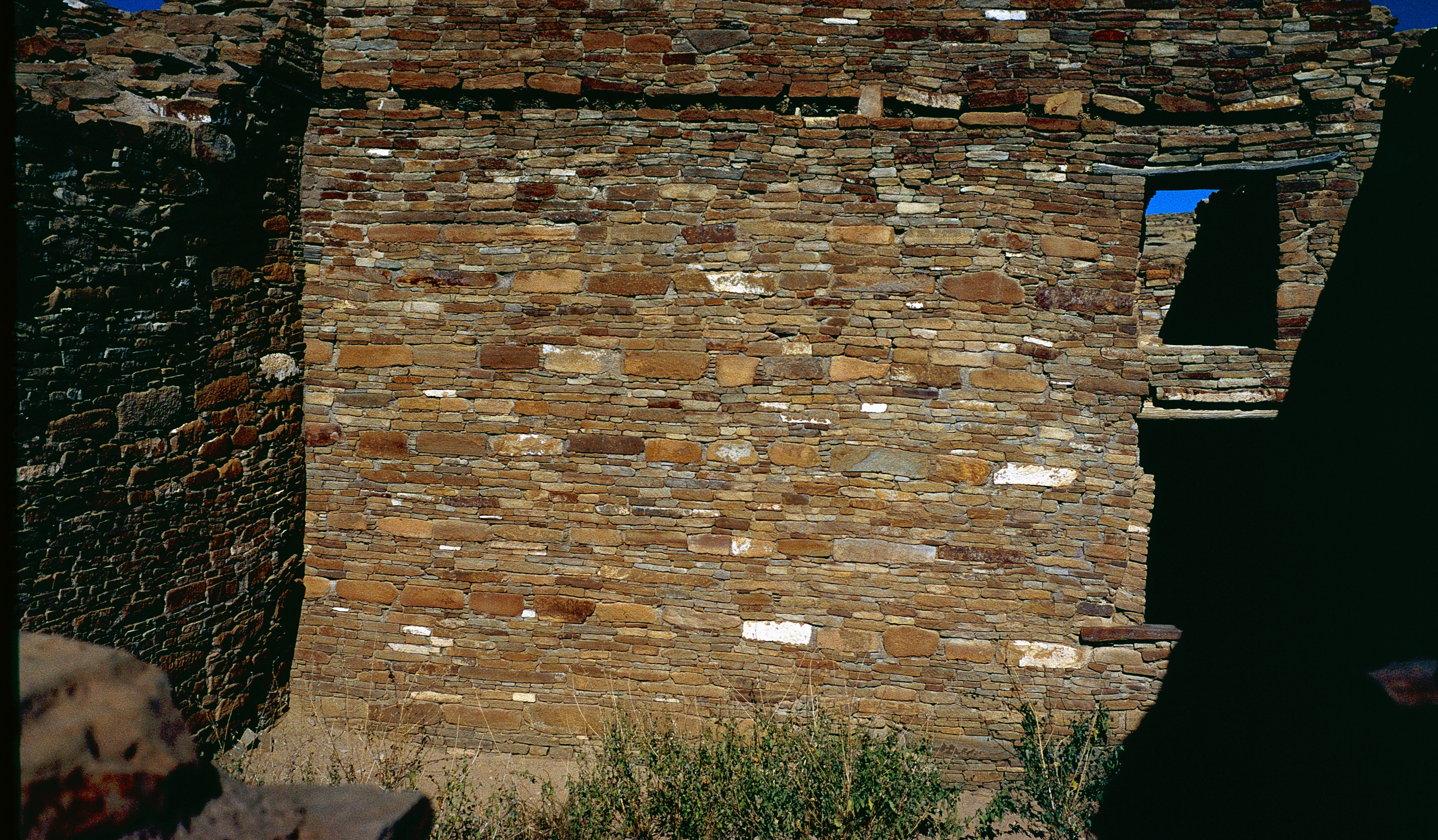 Chetro Ketl, Chaco Canyon, New Mexico, U.S.A. - wall construction technique